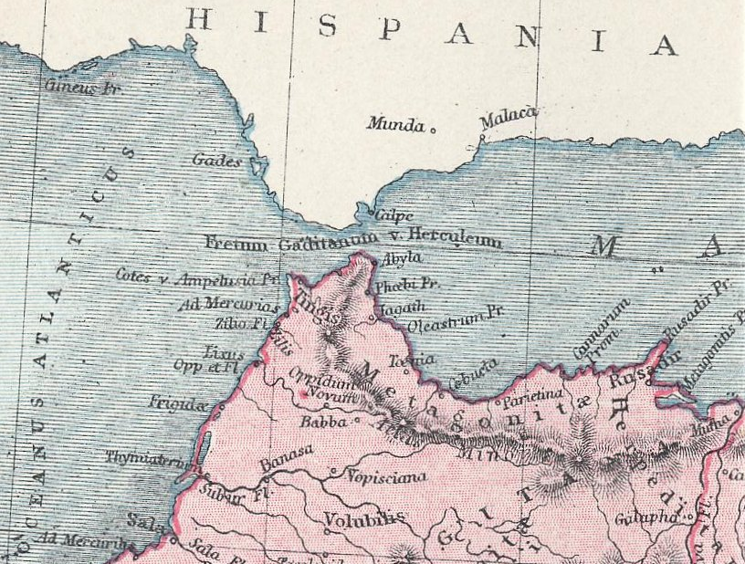 A map of the northwest corner of Africa near the Strait of Gibralter, showing Carthaginian and Roman settlements of antiquity.